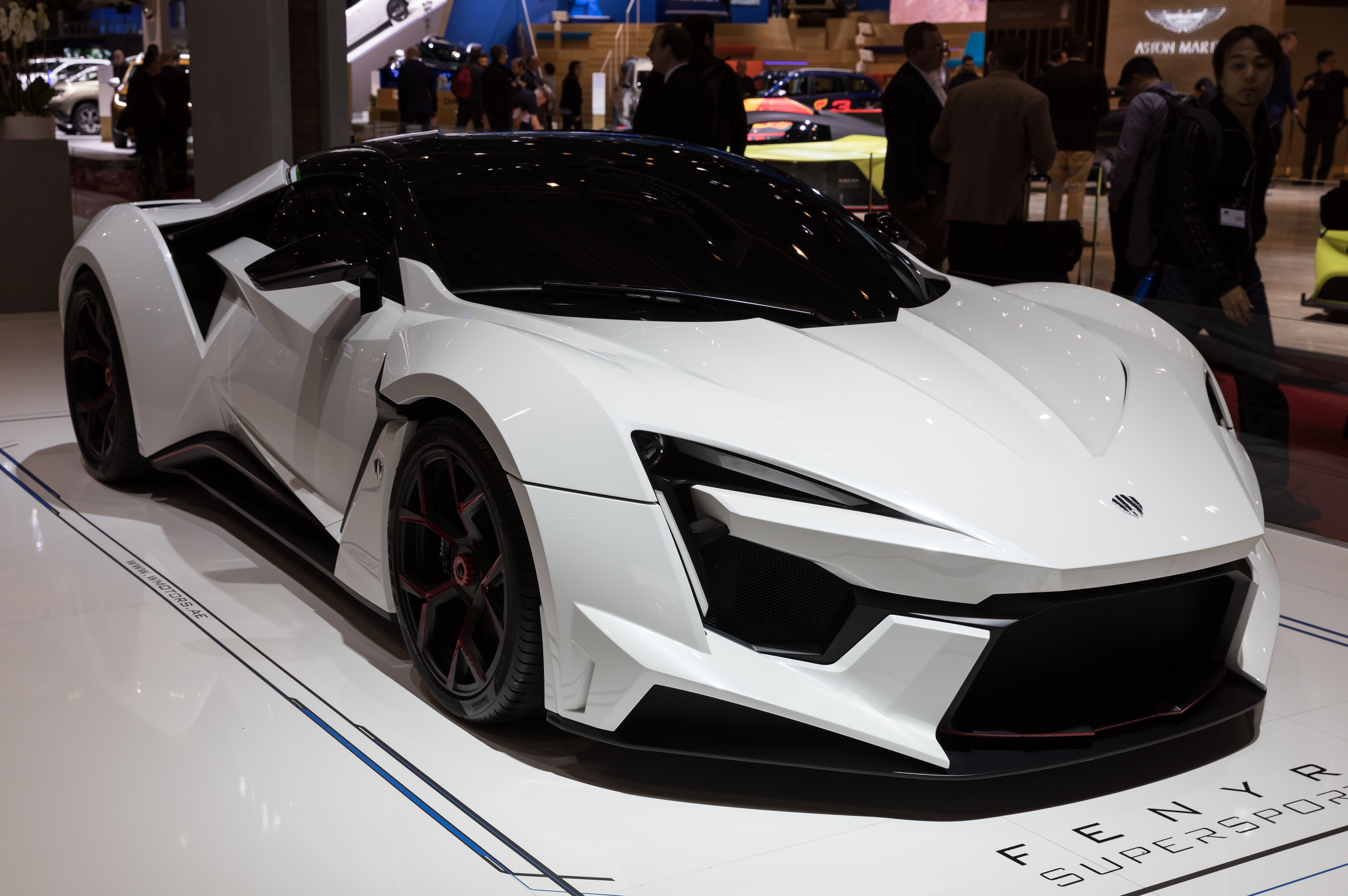 Cropped Fenyr Supersport image